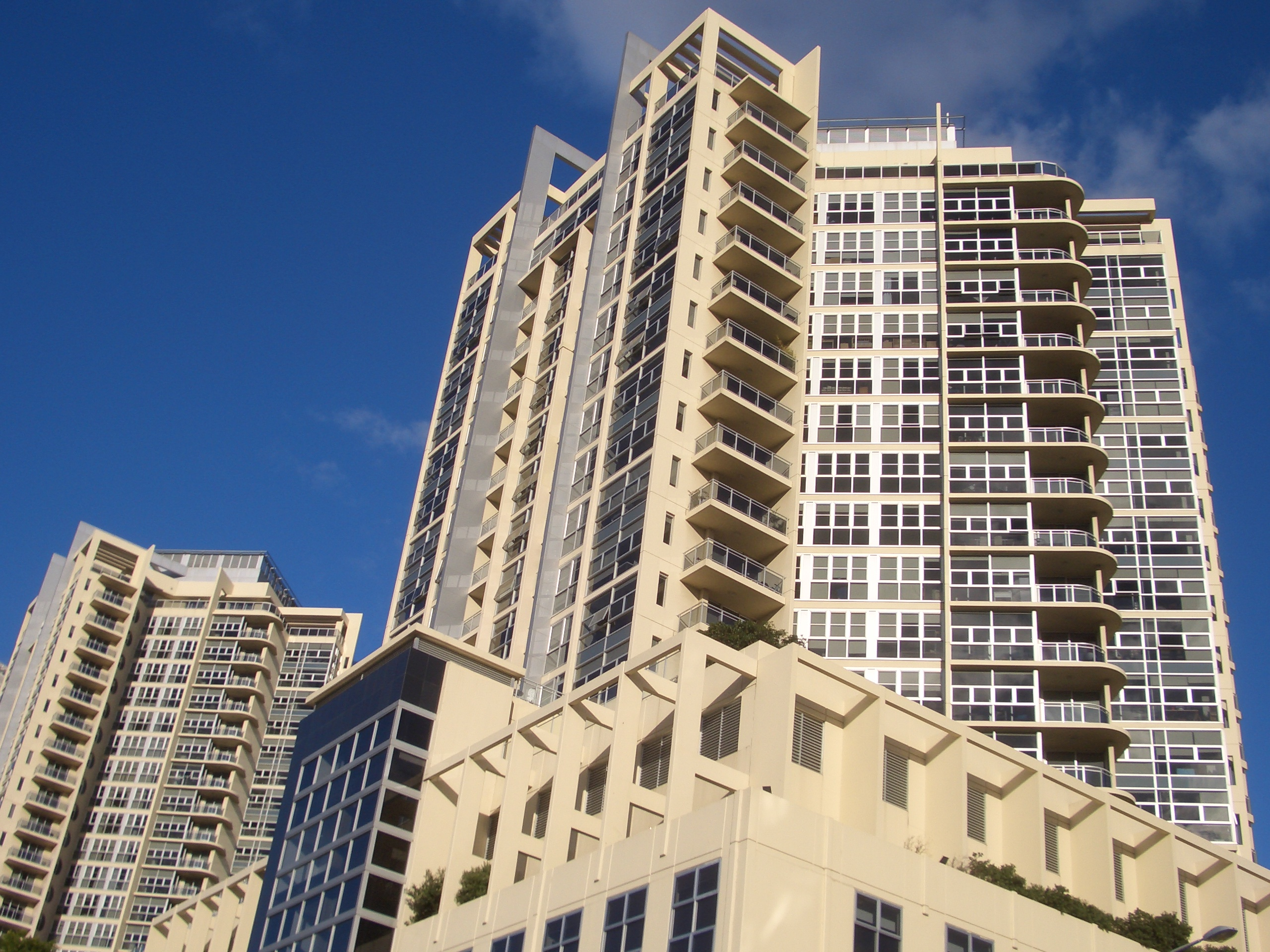 Grafton Street, Bondi Junction